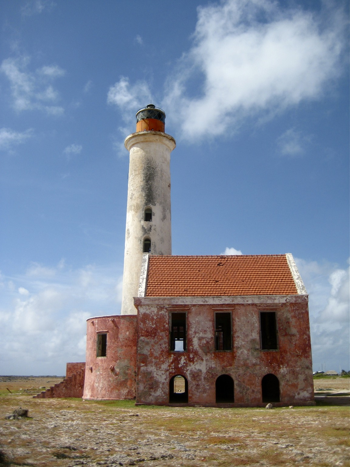 Photograph of the only building on Klein Curaçao, a lighthouse. 1